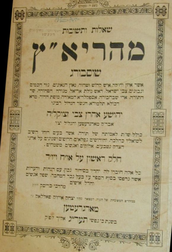 Shur Mahariatz, Margarita